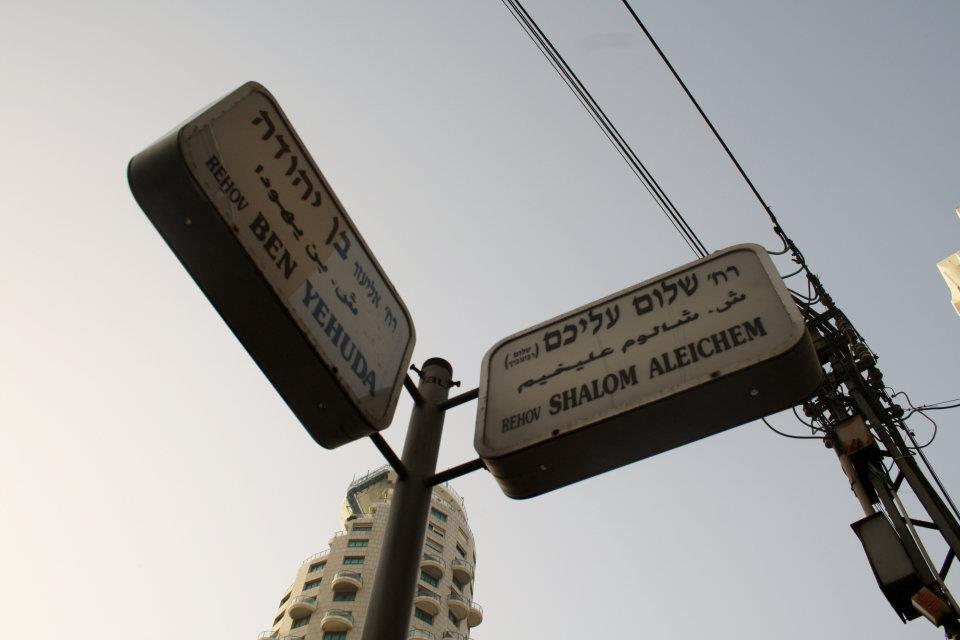 Road signs in Hebrew, Arabic, and Latin alphabet at Ben Yehuda Street / Shalom Aleichem Street, Tel Aviv